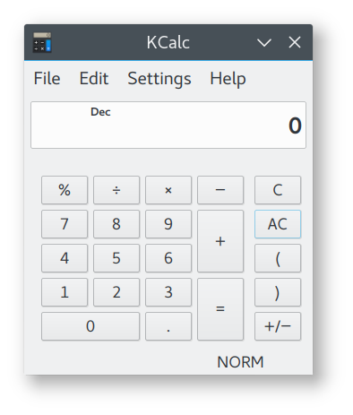 KCalc 16.12 in Simple mode